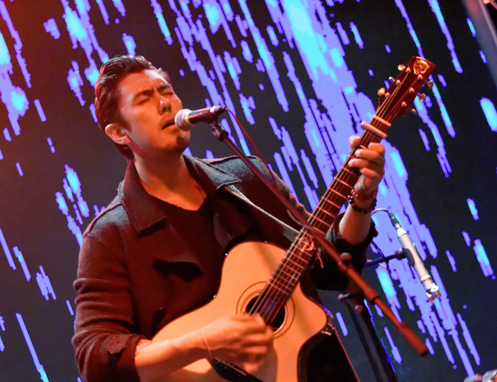 Justin Young performing live at Bogie's in Westlake Village California on Thursday February 27th, 2014.